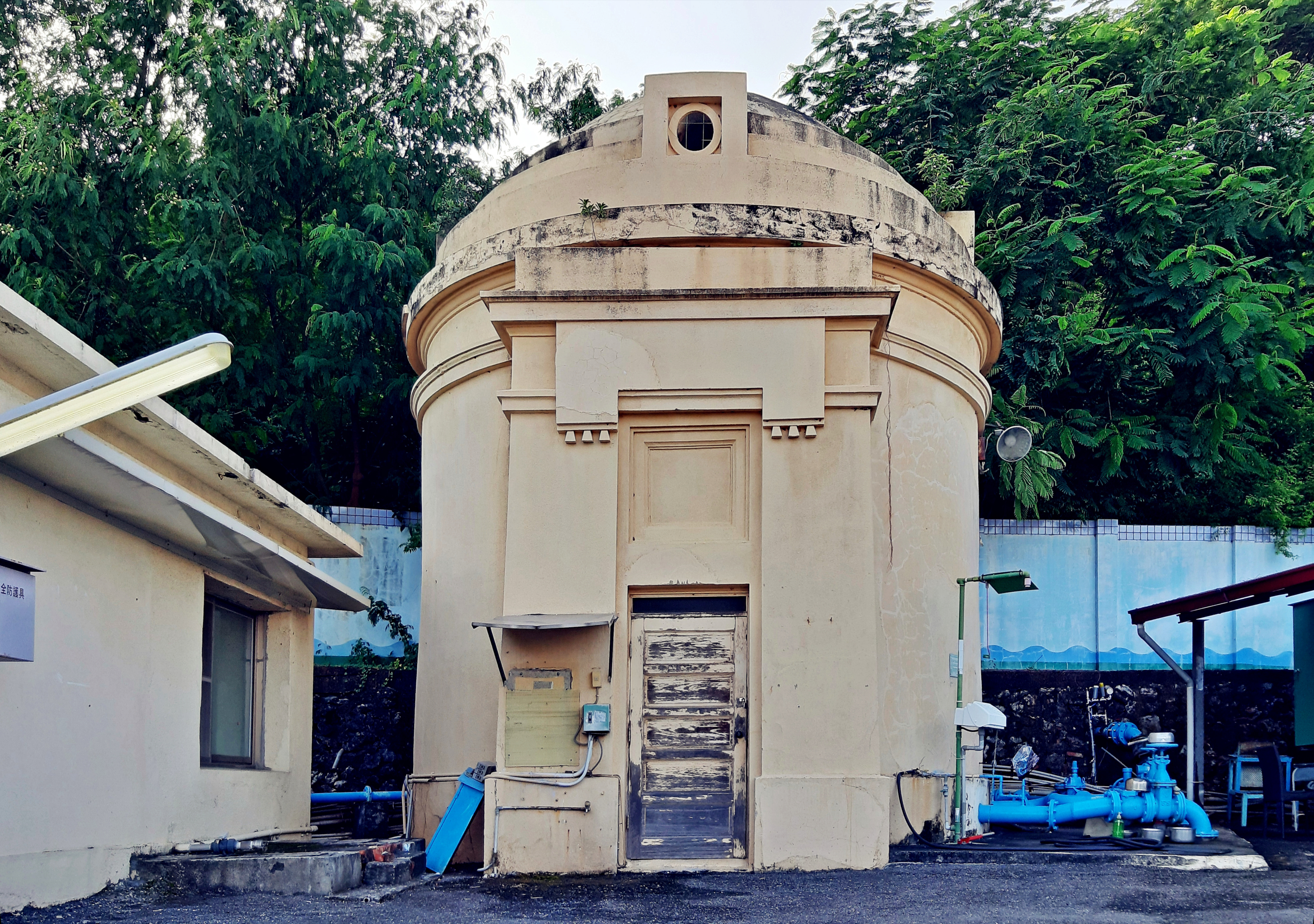 Urban infrastructure is an important, tangible symbol of a modern city. The water supply facility is a direct indicator of the advancement of a city and directly concerns the livelihood of the citizens. The Dagou Water Treatment Center gives information about the early development of Kaohsiung Harbor and City, and it is still in active service. This is a live Ancient Monument with significant cultural meaning and value. In view of its size, structure, and the technique used in its aqueduct architecture, it warrants being preserved as a cultural asset.